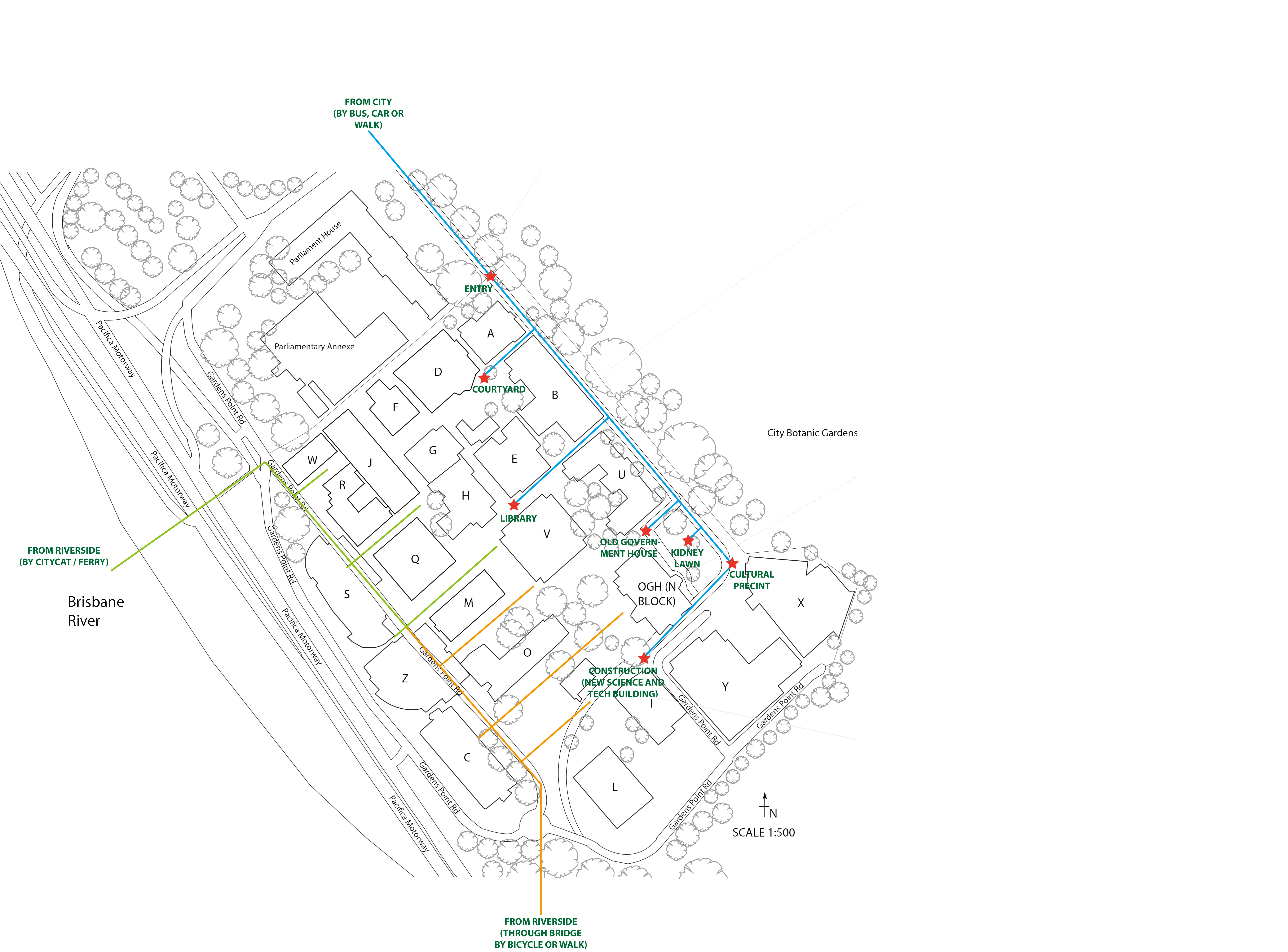 CIRCULATION MAP